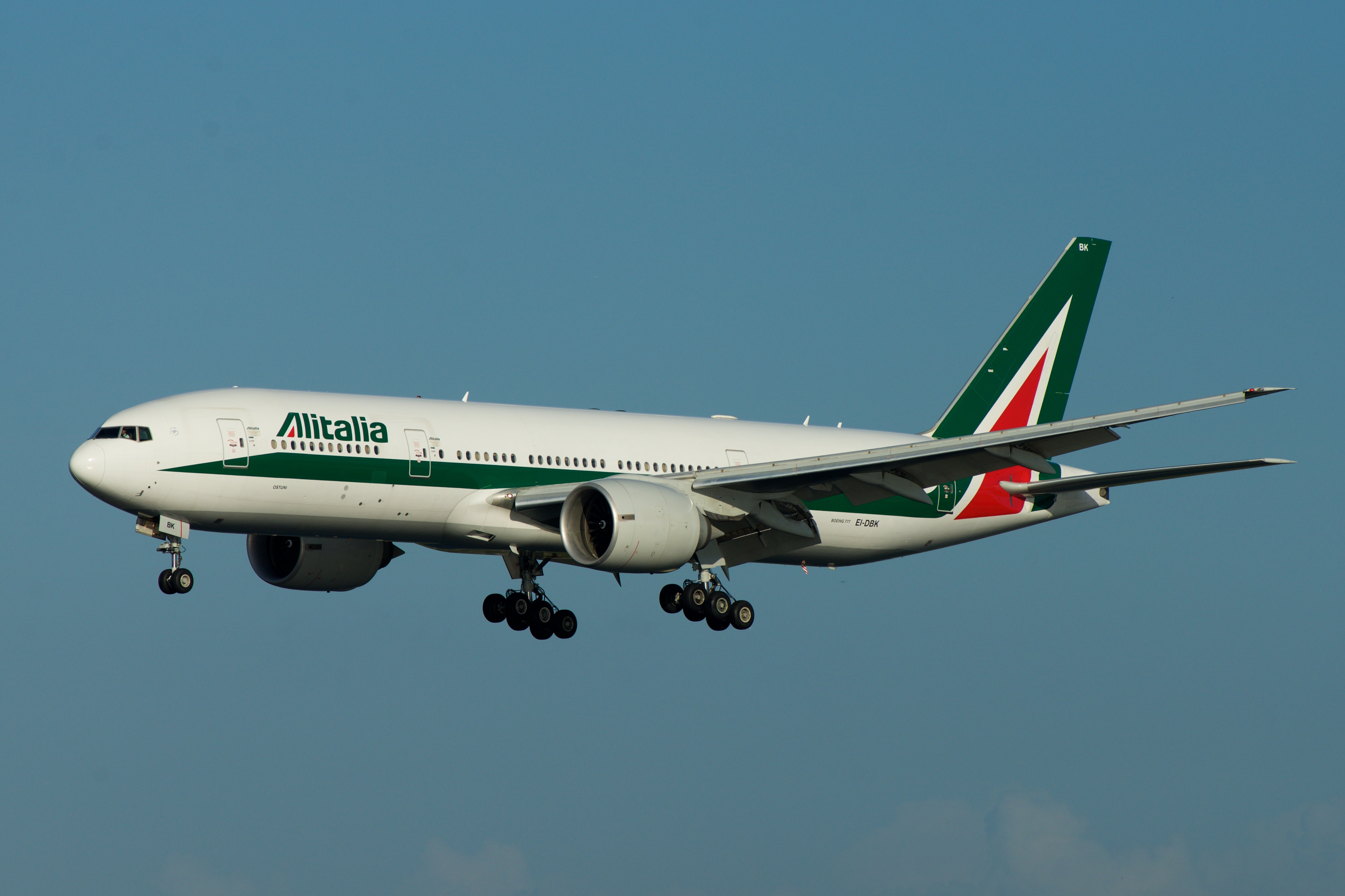 Short Final, MIA